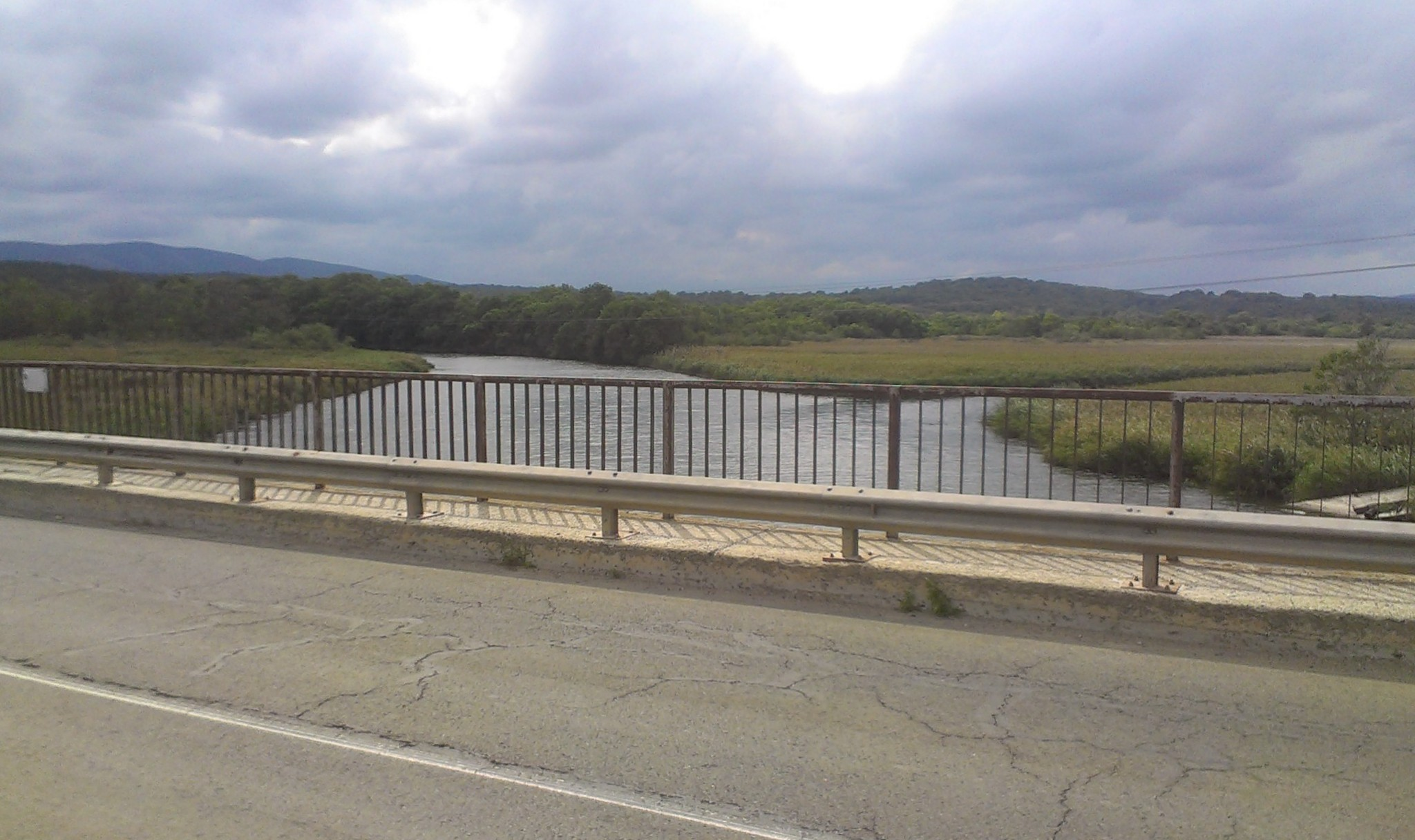 River Karaagach River lagoon